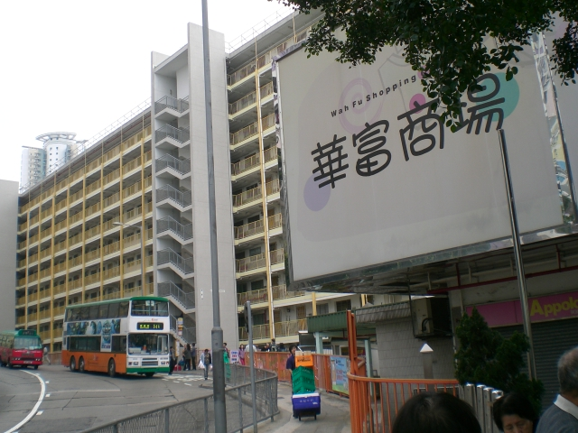 Wah Fu Estate (華富邨) is a public housing estate located by the Kellett Bay, Southern District, Hong Kong. It was built on a new town concept in 1971 and was renovated in around 2003. (Photo created by me.)